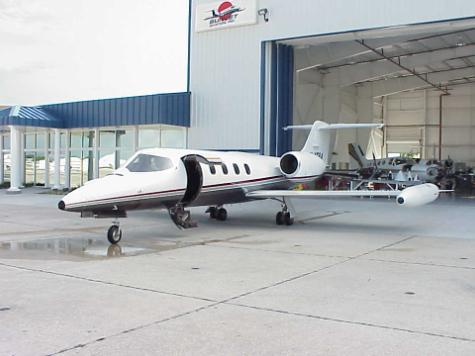 Learjet 35 N47BA Prior to crash